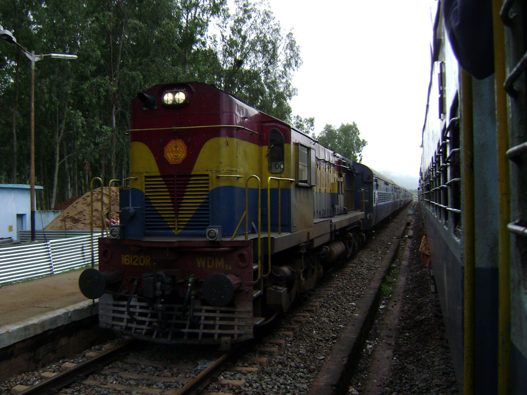 18447 Hirakhand Express with WDM3A loco of BNDM at Tikri